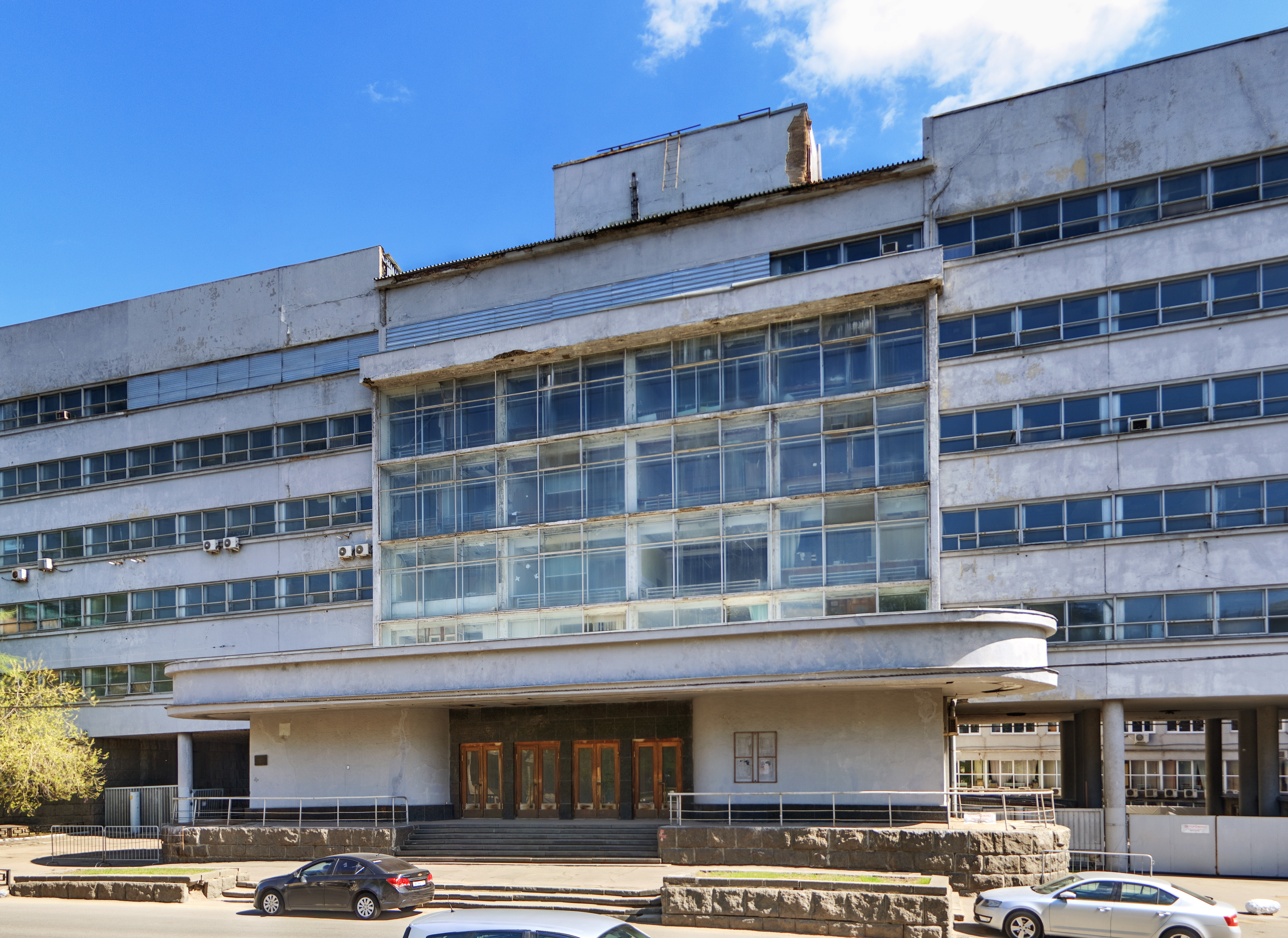 Pravda building, Pravdy street 24, Moscow, Russia